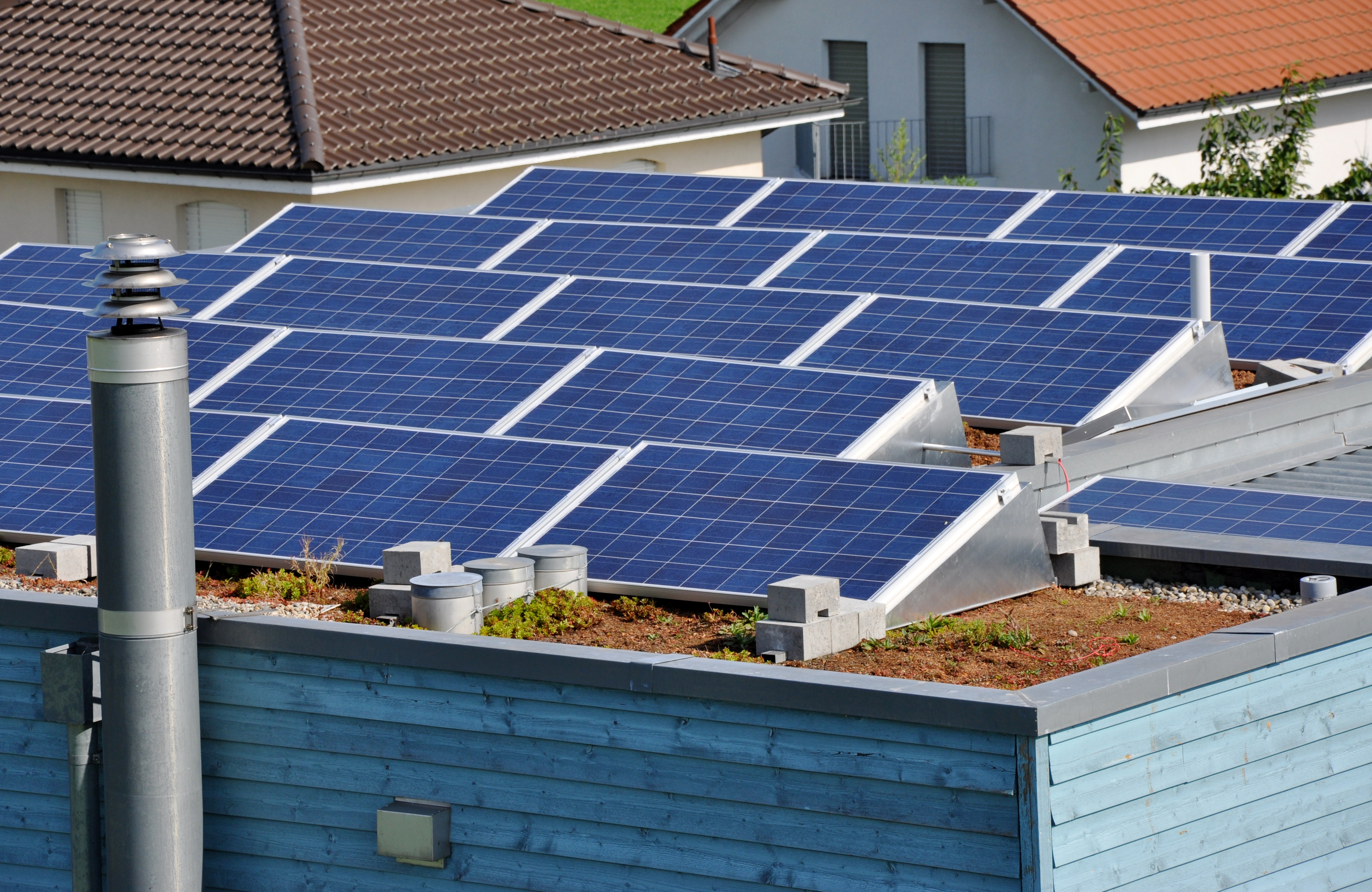 solarpanel